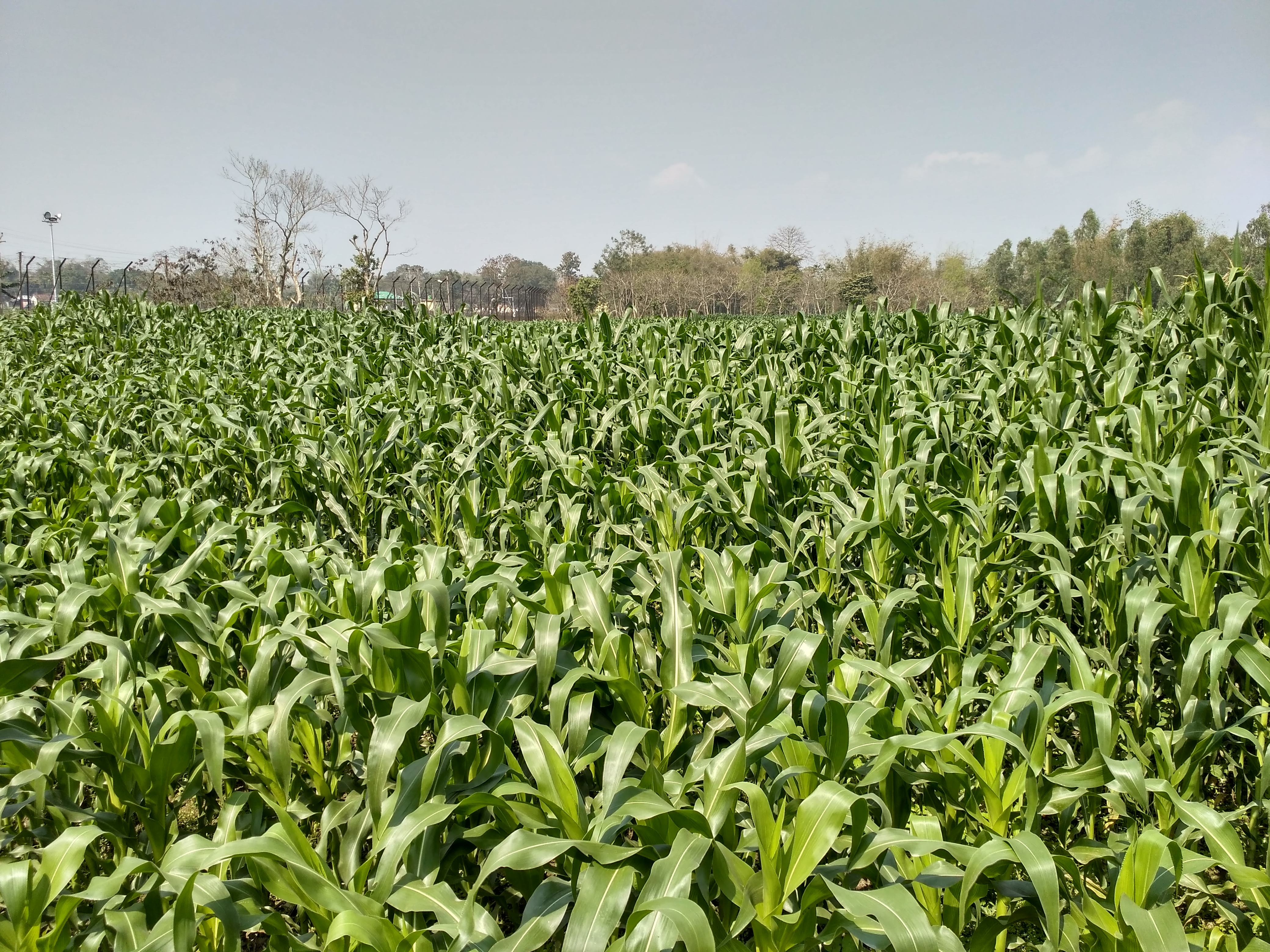 Corn field at Kuchlibari, near Tin Bigha Corridor, Patgram Upazila, Lalmonirhat District, Bangladesh. (01.03.2019)